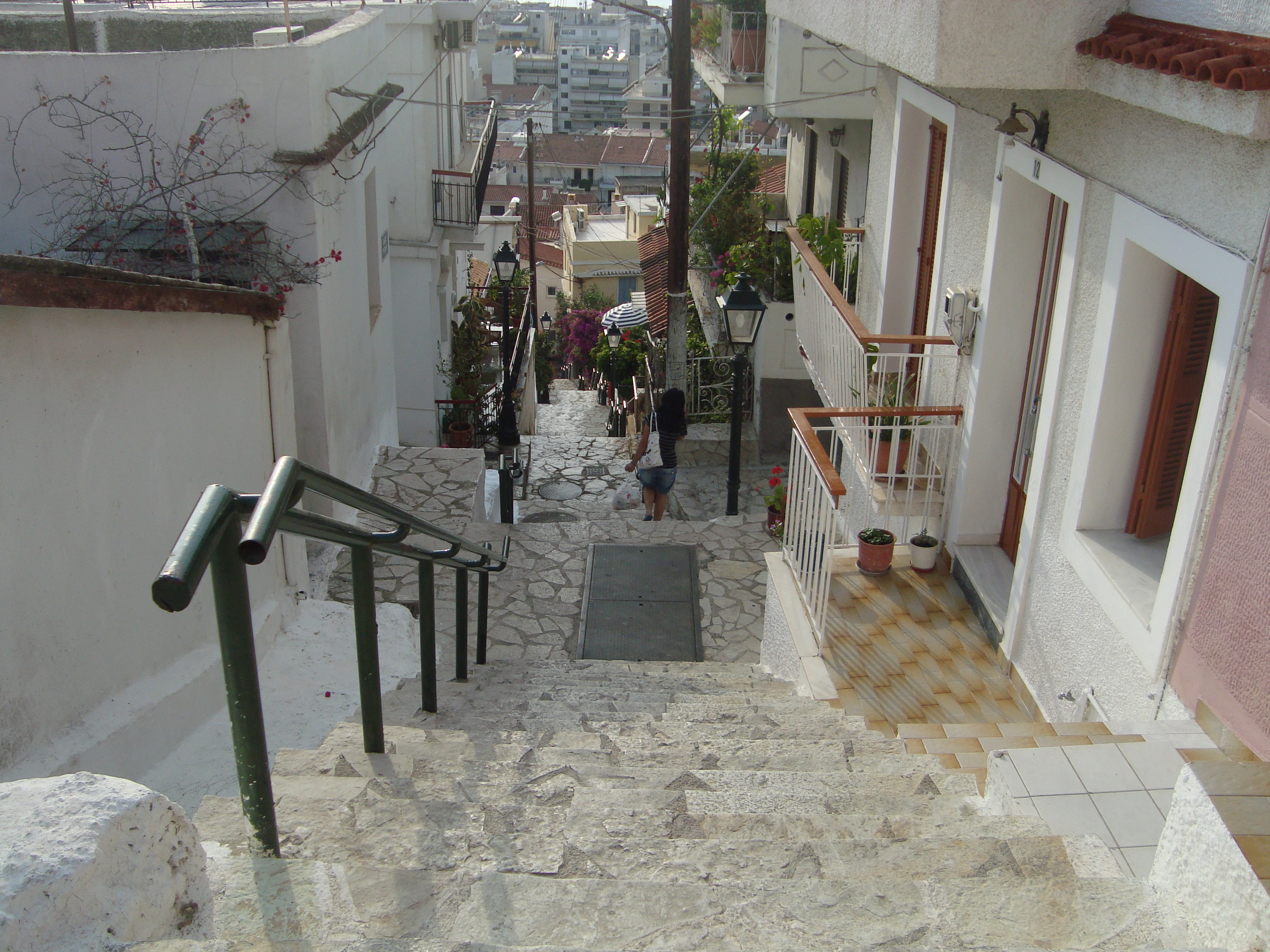 Tritaki District of Patras